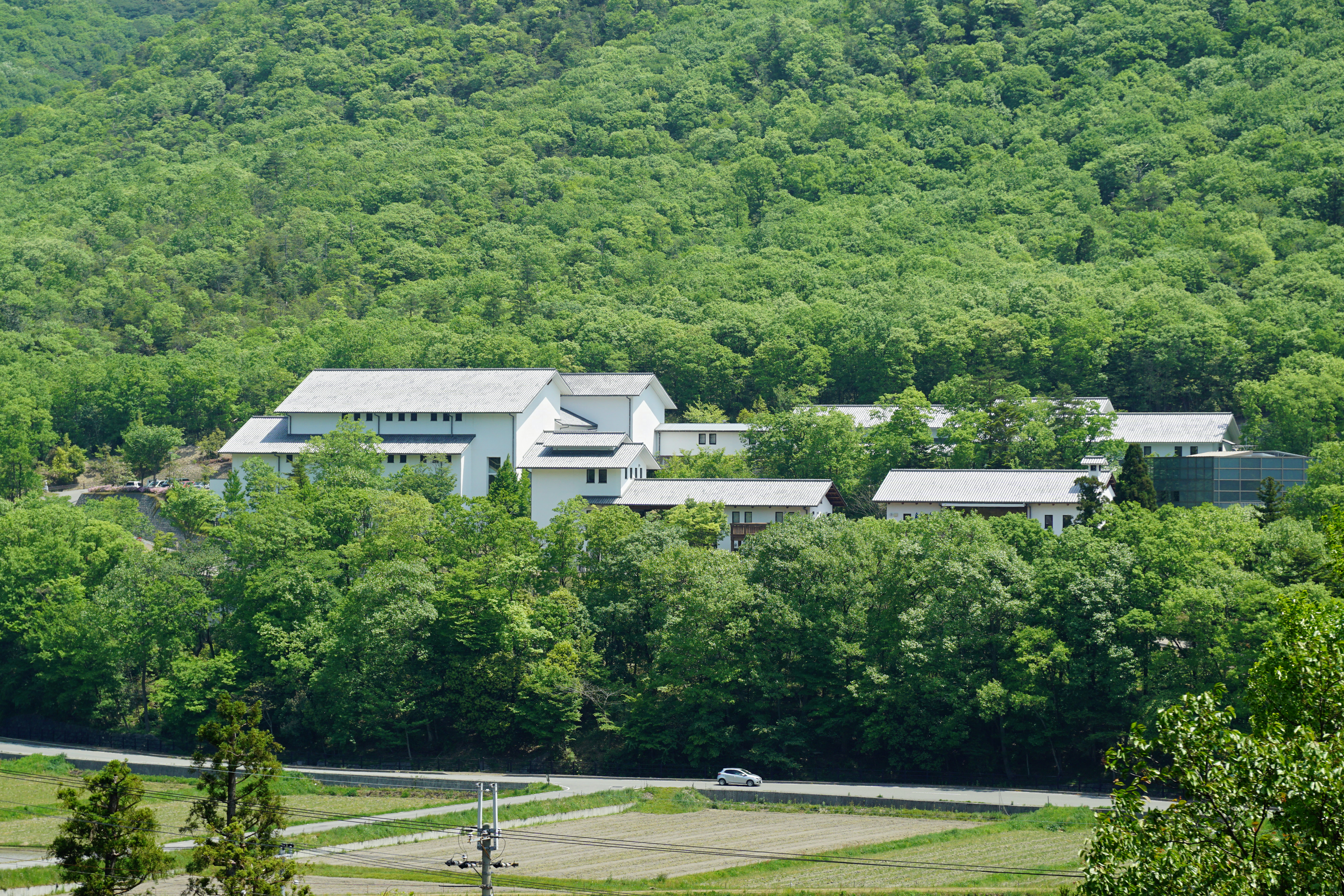 The Museum of Ceramic Art, Hyogo in Sasayama, Hyogo prefecture, Japan.